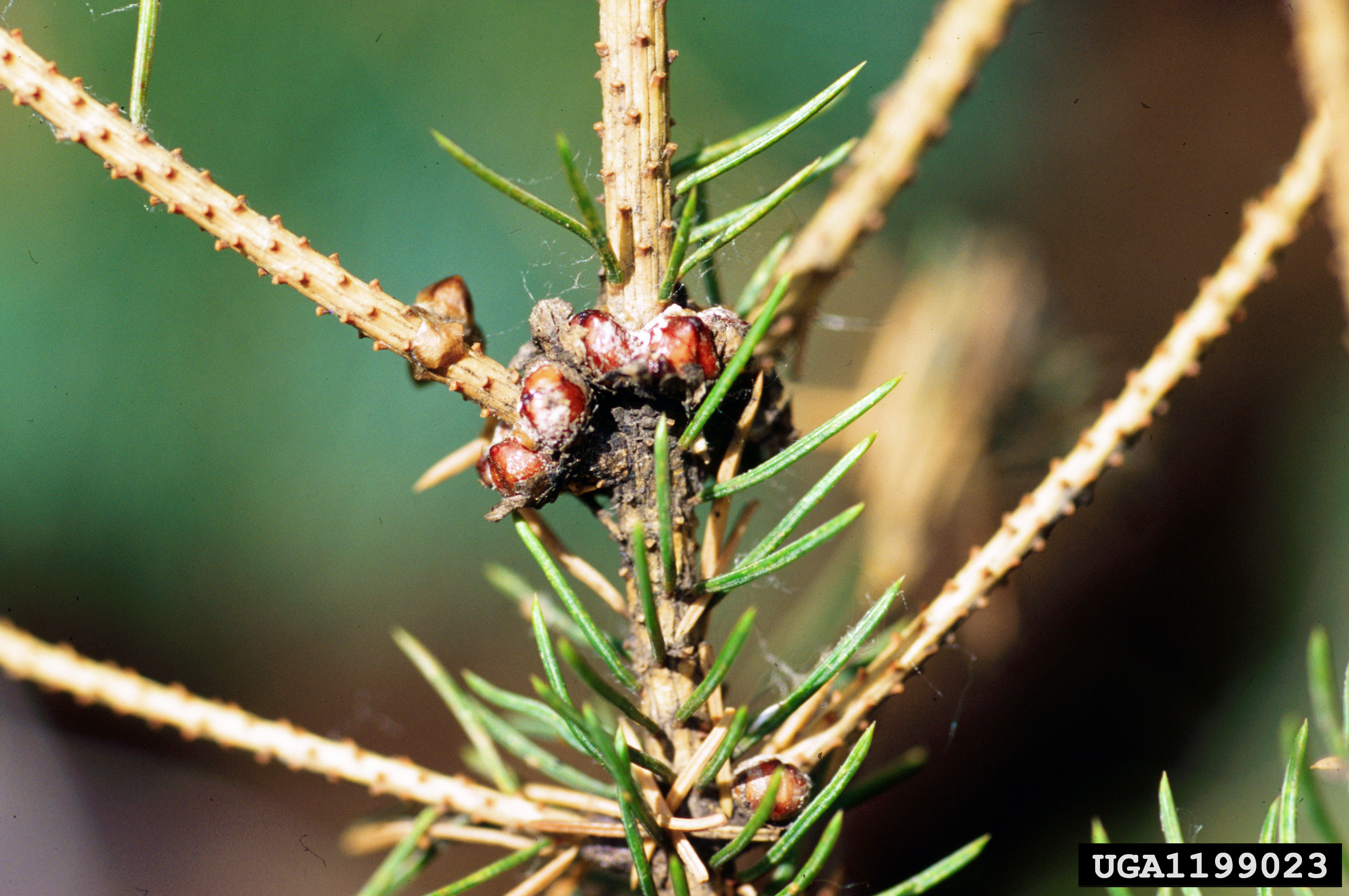 Physokermes piceae